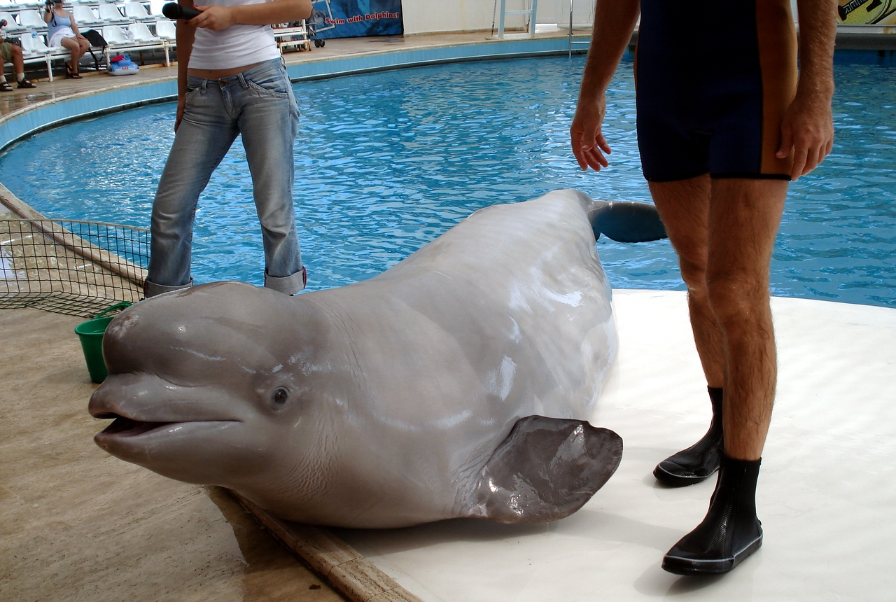 A 6 year old beluga, Mila, at a show in DolphinLand at BeachPark, Antalya, Turkey.